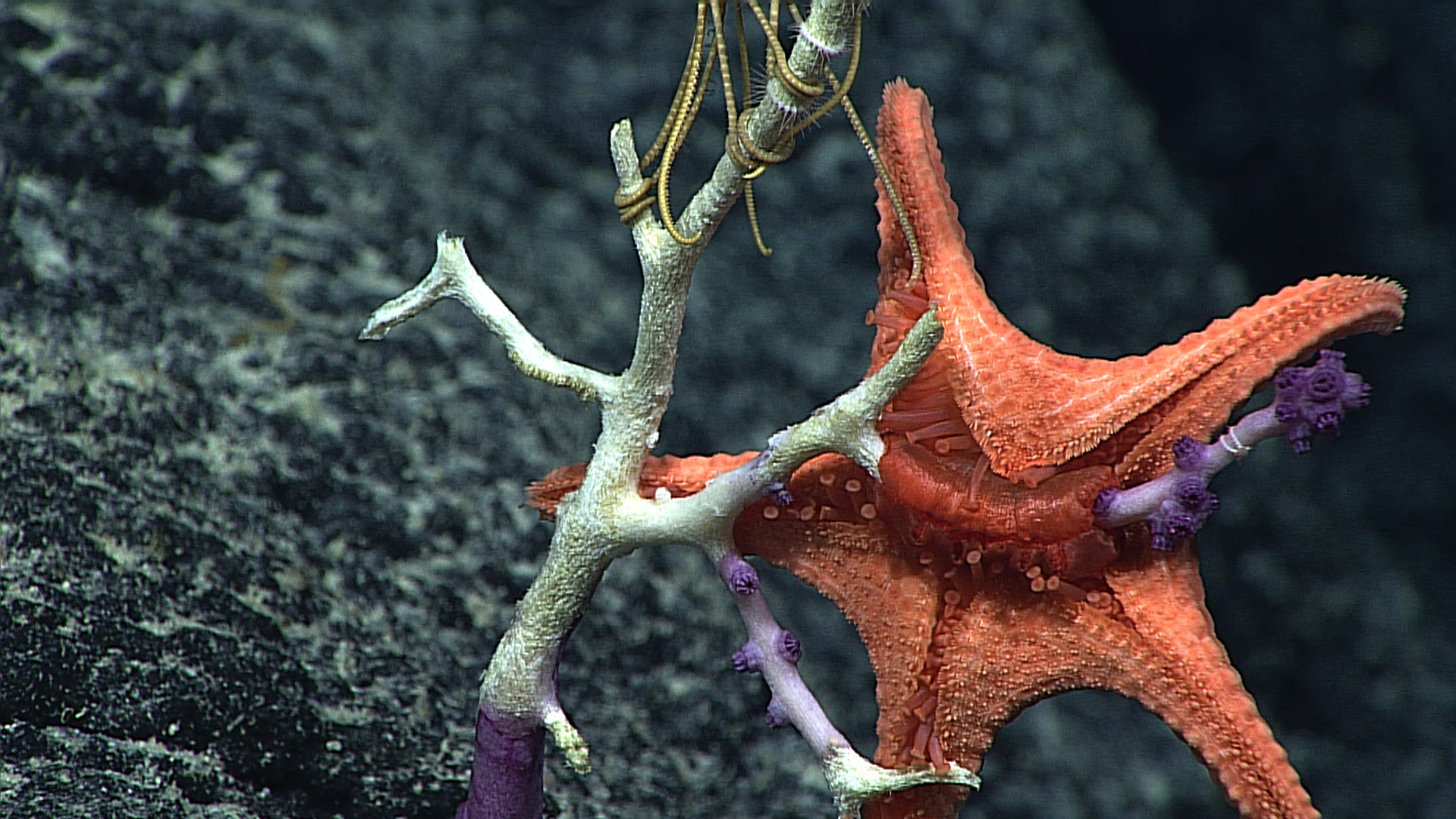 Original description: Sea stars have what many might consider unusual eating habits. Rather than ingesting prey through its mouth, a sea star will push its stomach out of its mouth to begin feeding. This process is called eversion and is done so that the starfish can expose prey to digestive enzymes and begin its digestion outside of its body. The stomach will not be pulled back into the sea star’s body until the liquefied food has been absorbed through the stomach lining. This image, taken over 2500 m deep, depicts a Circeaster pullus everting its stomach in order to feed on an unfortunate Victorgorgia coral colony. Seen September 21, 2015, during a dive investigating the northeast slope of a cone feature on an unnamed seamount within the Pacific Remote Islands Marine National Monument.